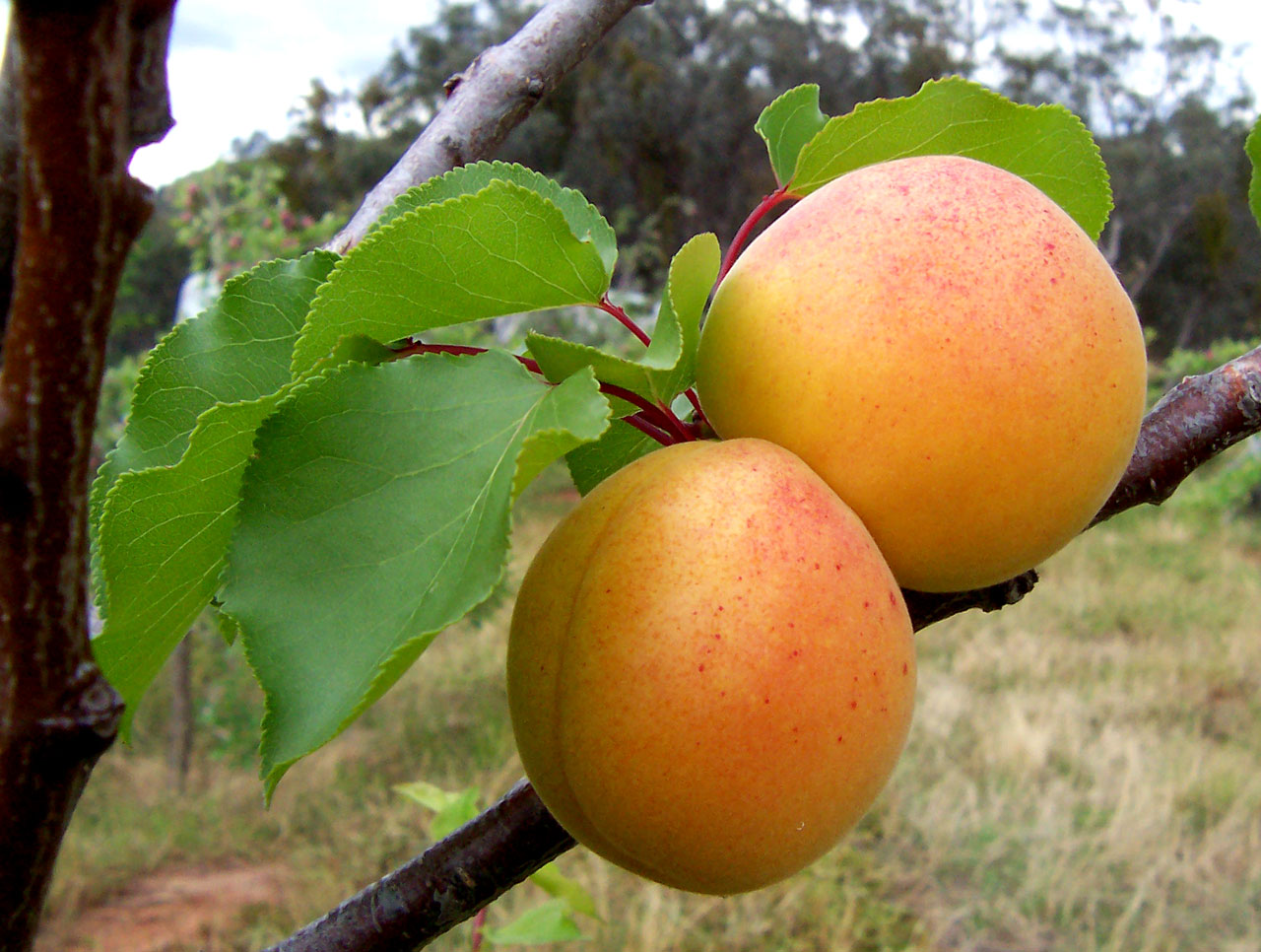 Apricots